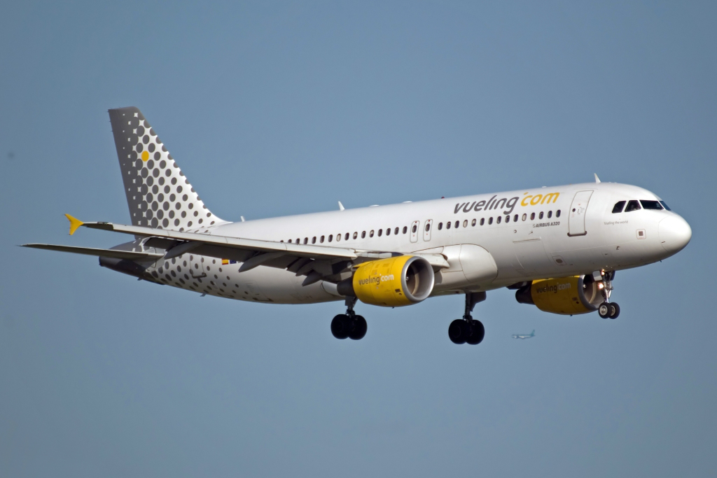 Airbus A320-214 Amsterdam schiphol [AMS / EHAM] 31-05-2009